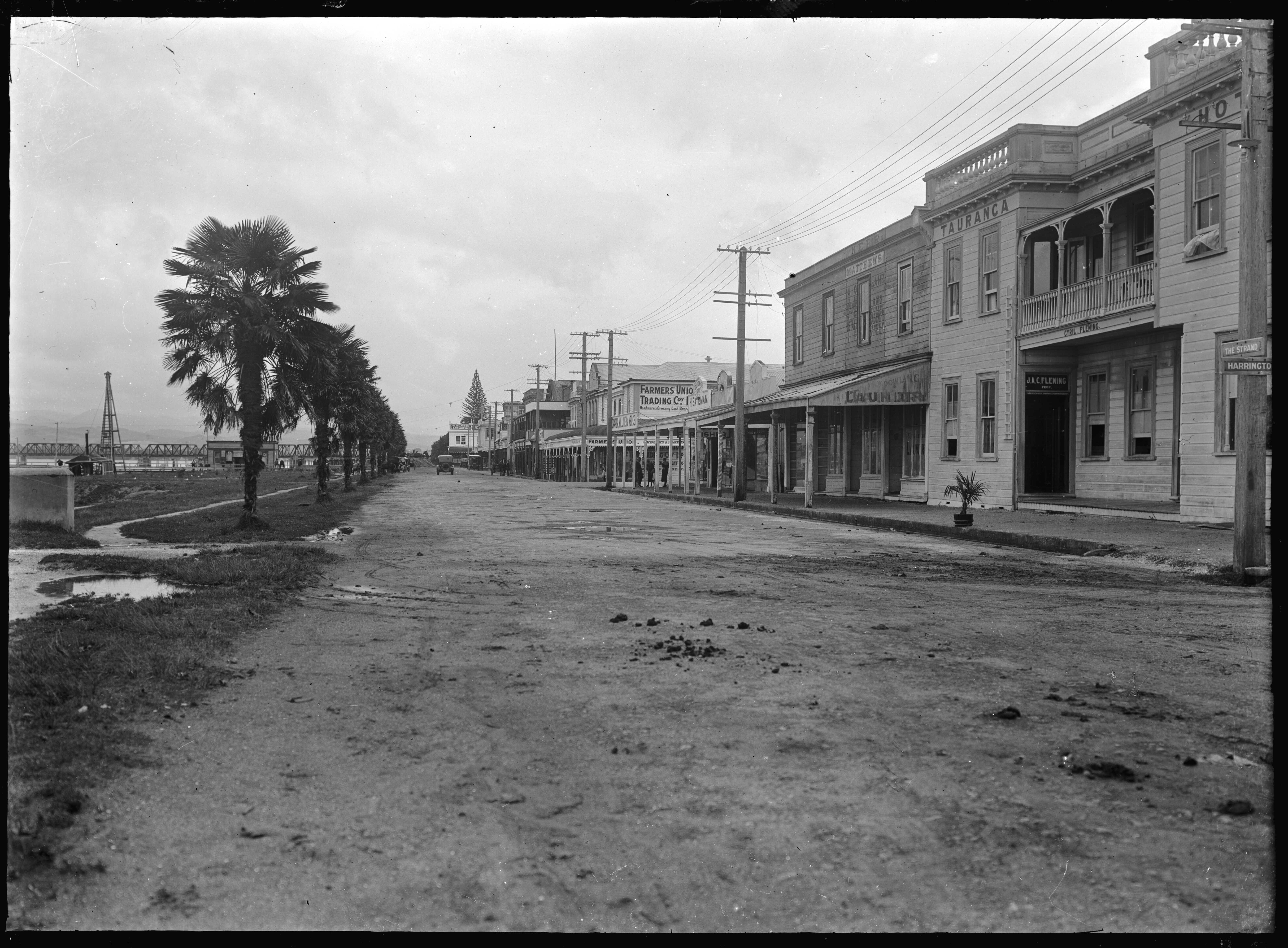 View of a street in Tauranga, with the Tauranga Hotel (proprietor, J A C (Cyril) Fleming), and the Farmers' Union Trading Company visible. Photograph taken by Albert Percy Godber, in 1924.